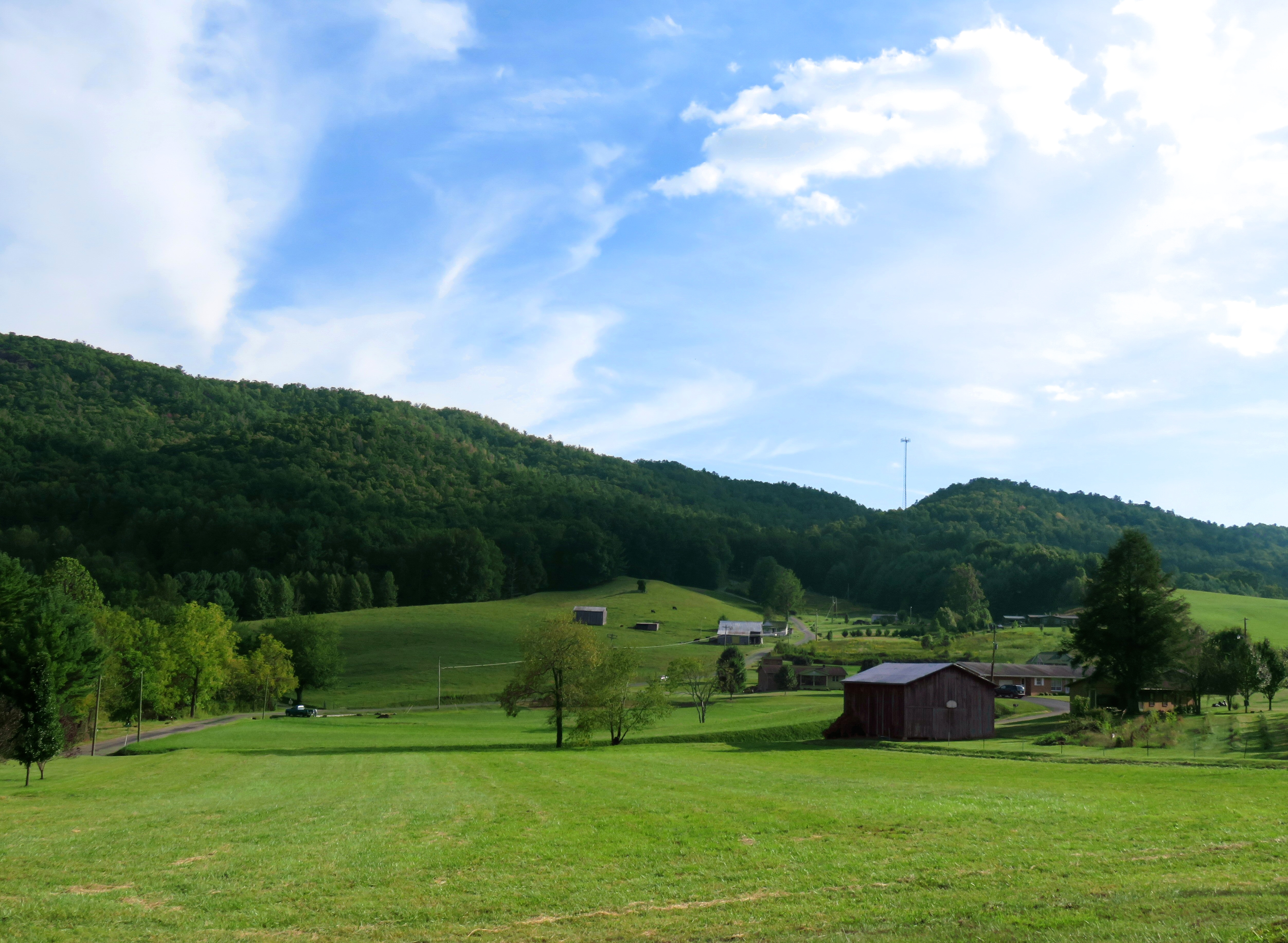 Houses in the Doeville community of Johnson County, Tennessee, United States. This view is from the car dealership at the intersection of state highways 67 and 167, looking southwest. Sink Mountain rises on the left.